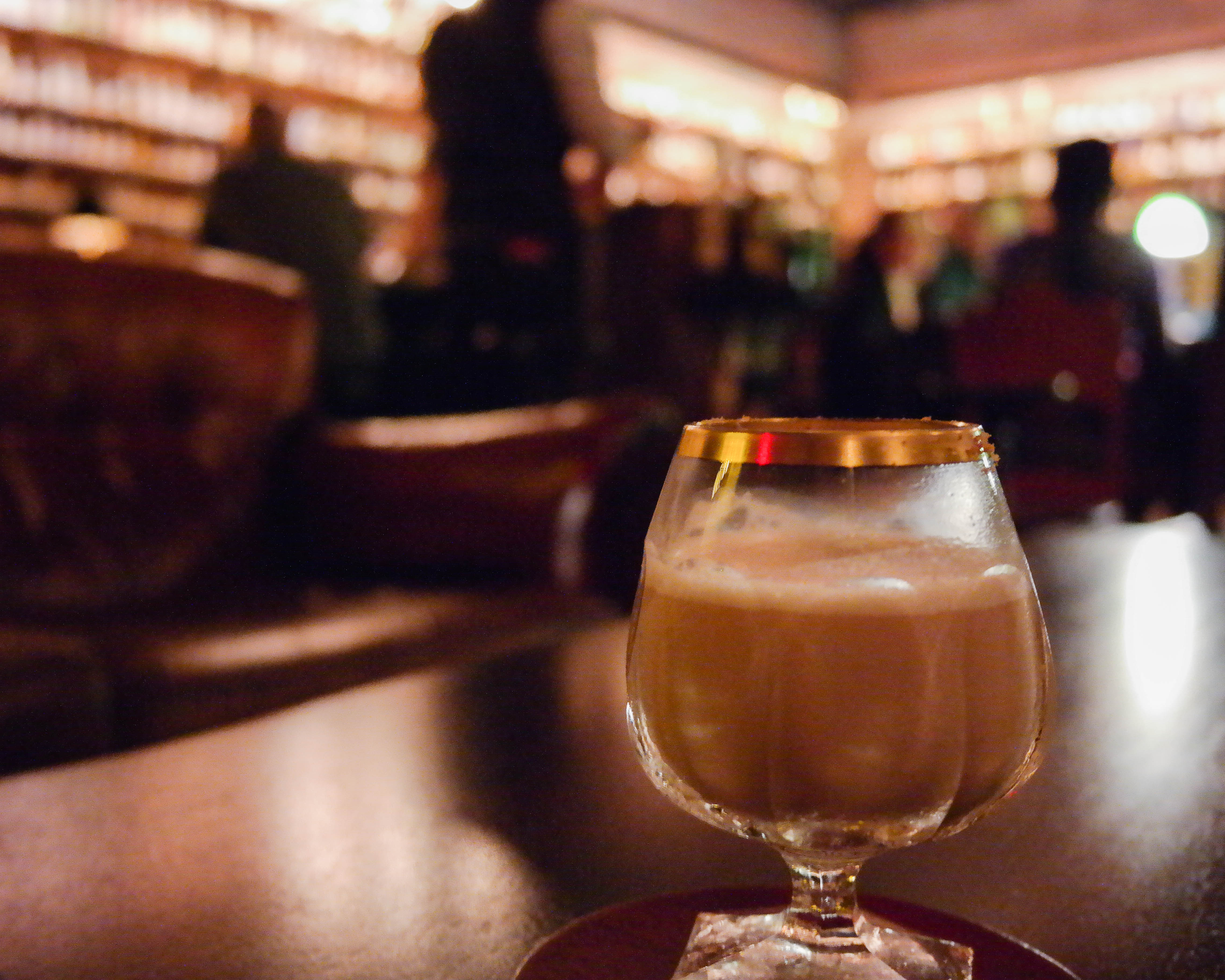 Eggnog at Multnomah Whiskey Library in Portland, Oregon